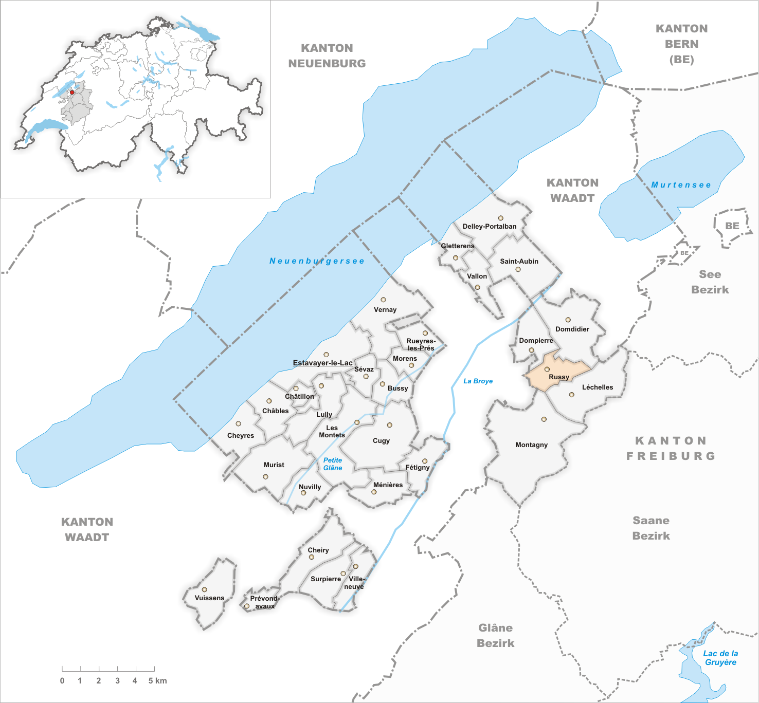 Municipality Russy